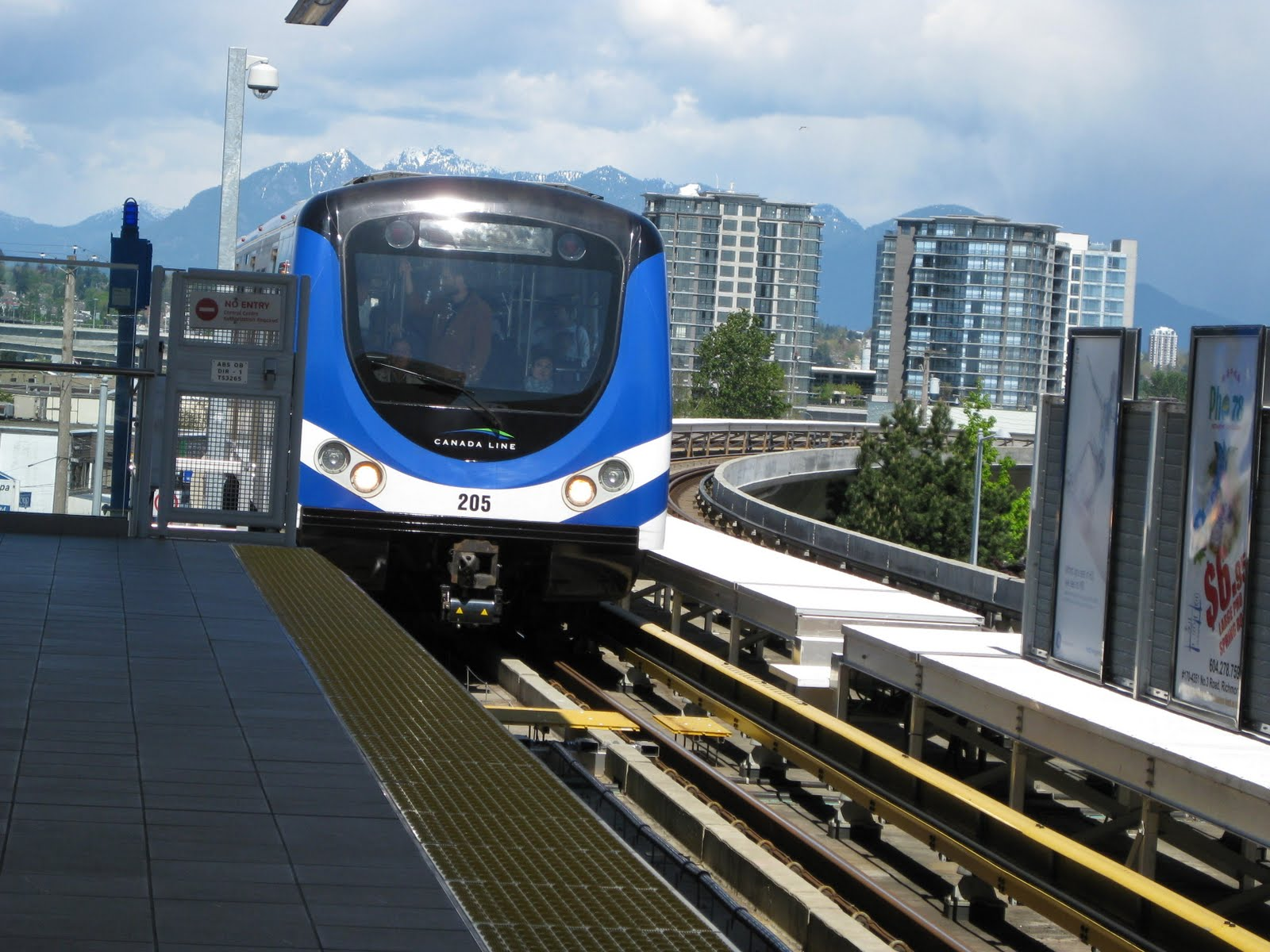 Vancouver Skytrain in a Sunny day